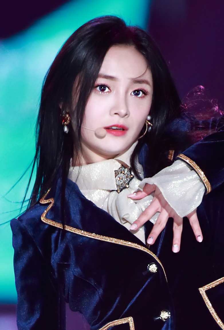 Zhou Jieqiong at Seoul Music Awards on January 25, 2018.